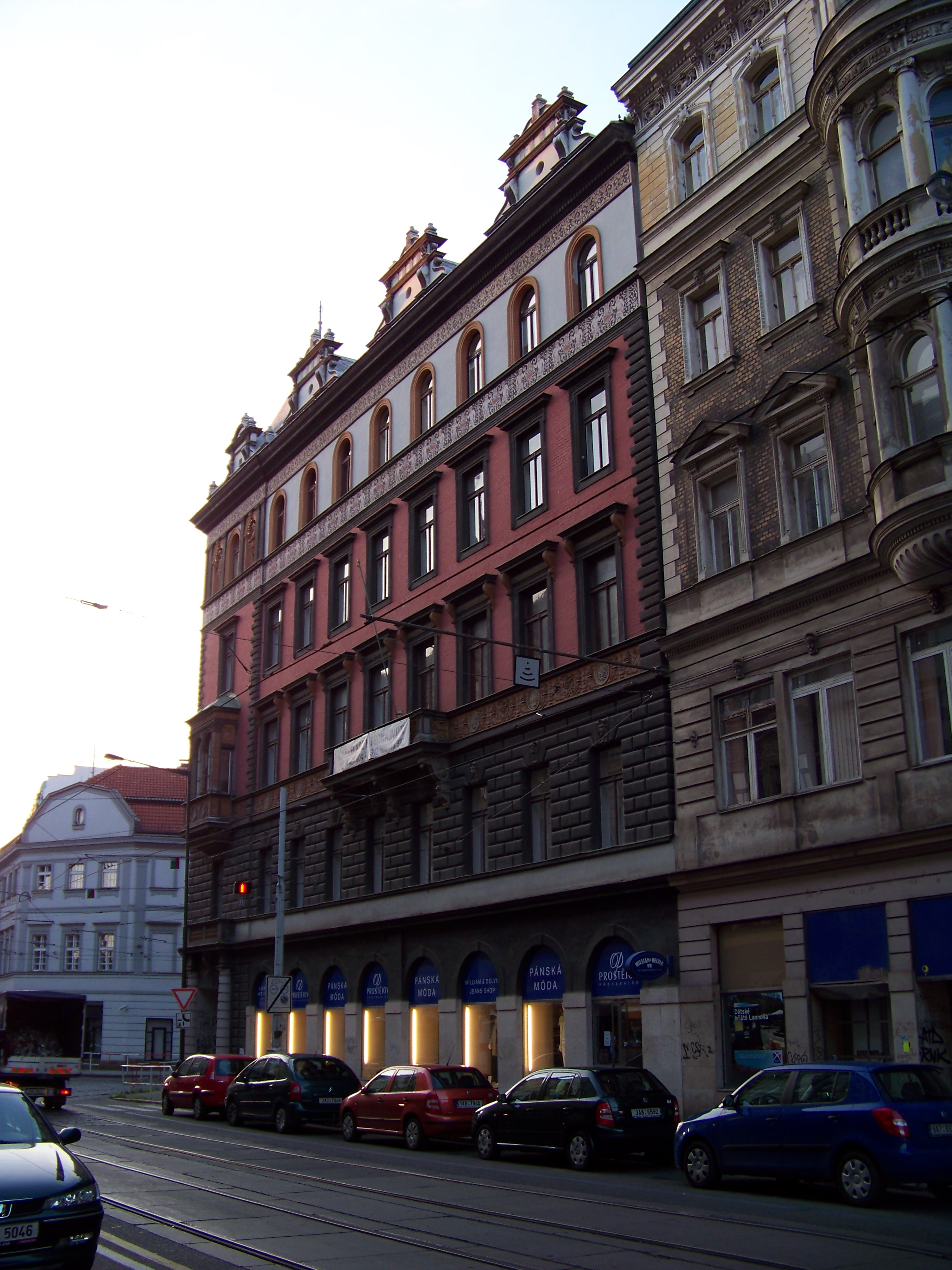 New Town, Prague, the Czech Republic. Na poříčí street, a house.